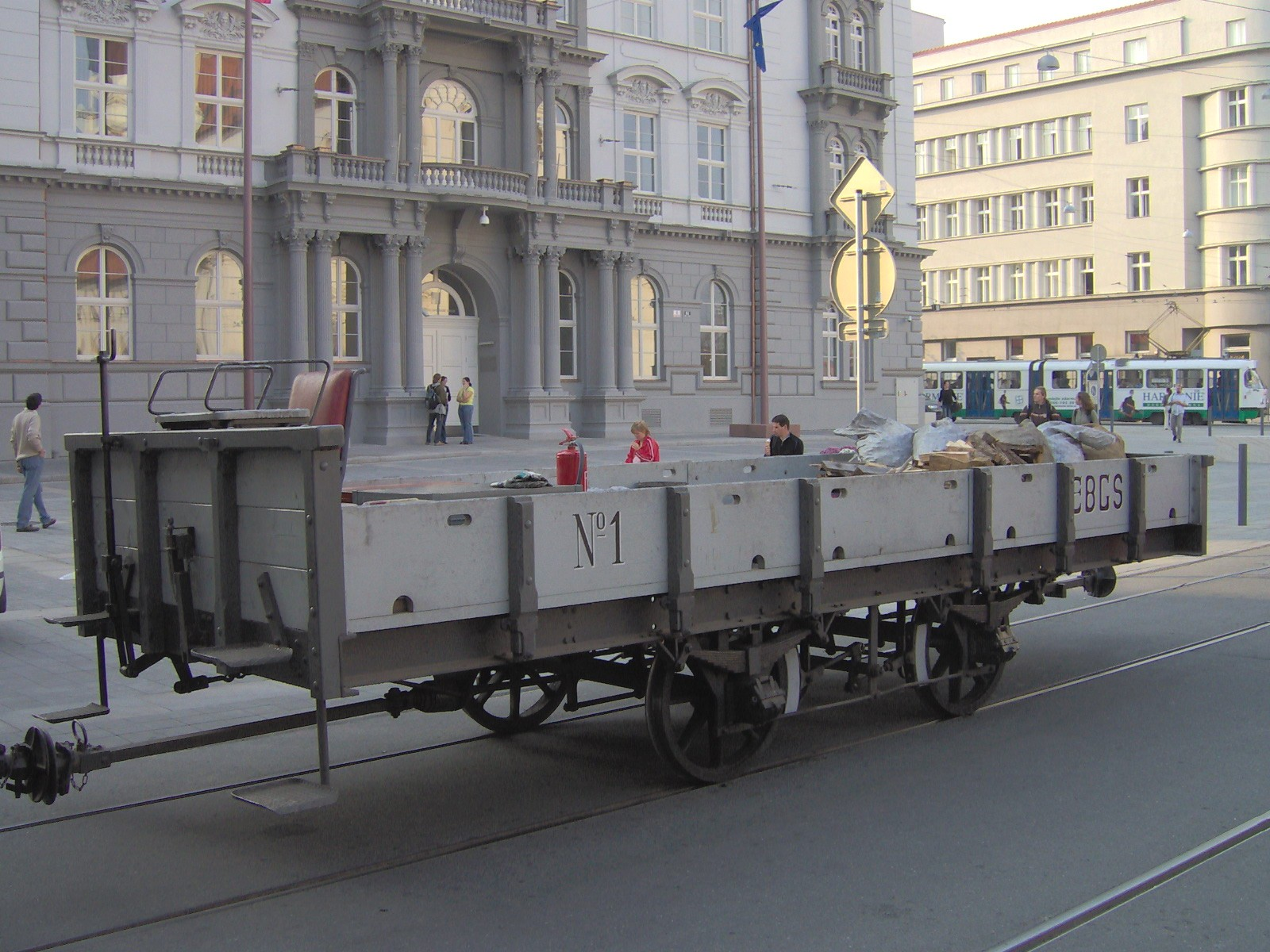 Freight car No. 1 of steam tram in Brno, Czech Republic